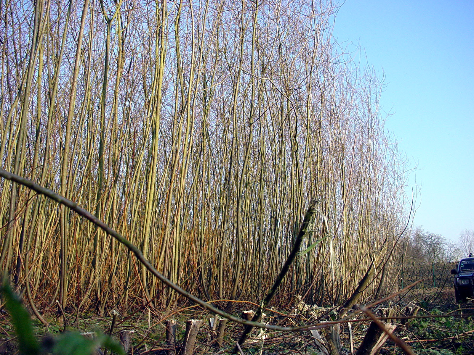 Coppice short rotation willow (clones), irrigated by water from the purification plant of Villeneuve d'Ascq (town, in northern France) for final purification of water (nitrates, phosphates). This coppice was used to produce wood chips to fuel a boiler-wood.